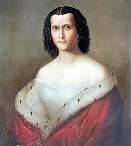 Portrait of Nino Dadiani, nee Bagration, the Princess of Mingrelia (born 1772 - died 1847). The painting was acquired by the Georgian-Australian Victor Dadiani through eBay and presented to the Dadiani Palace Museum, Zugdidi, Georgia, in 2010.